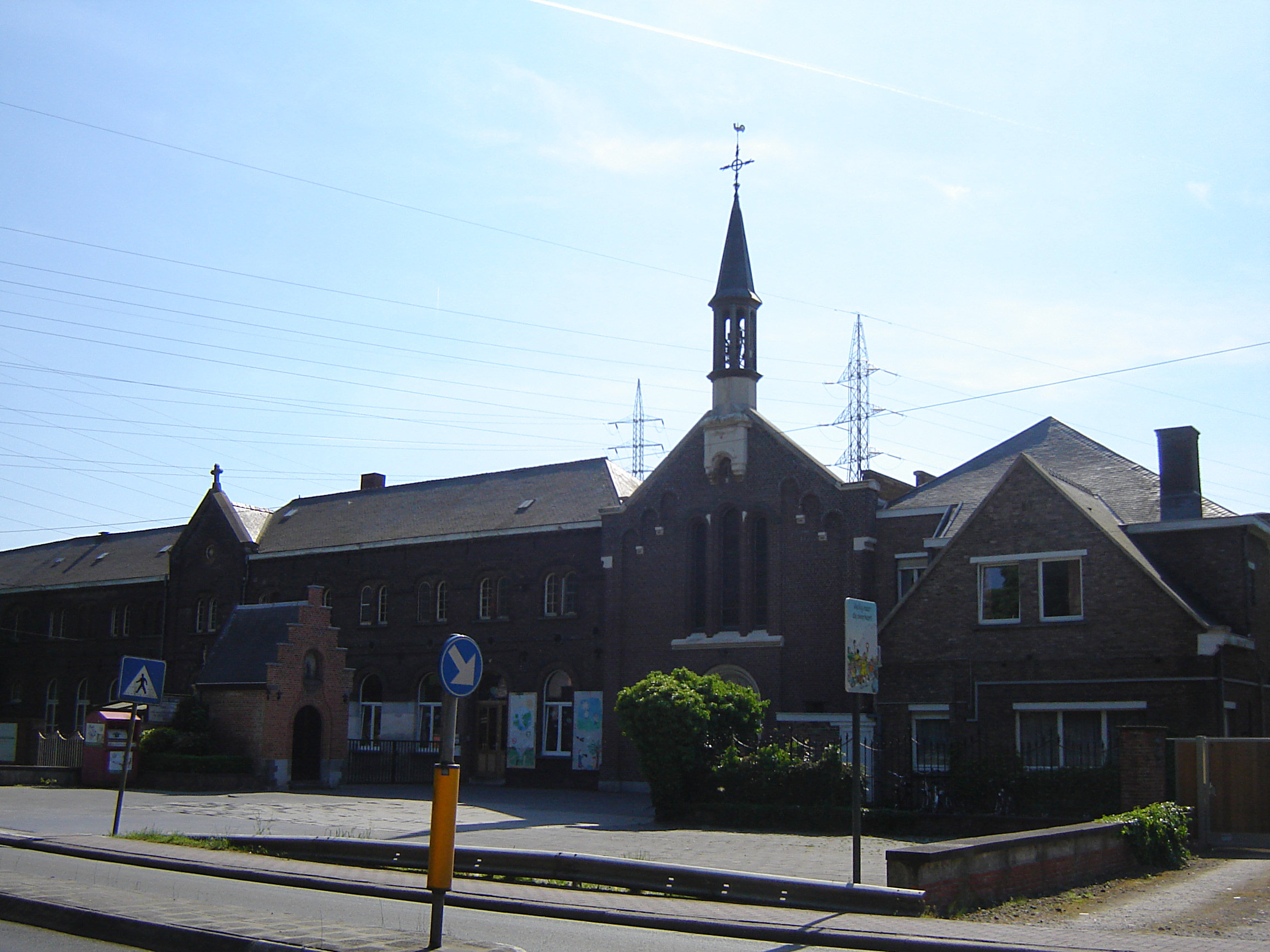 Church of the Divine Providence in Langerbrugge. Langerbrugge, Evergem, East Flanders, Belgium